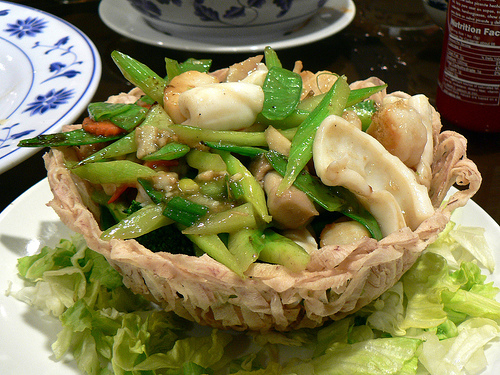 Seafood birds nest Chinese cuisine birdsnest